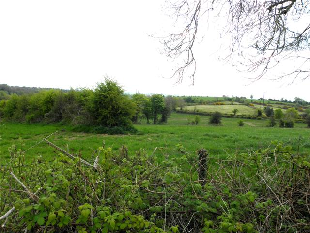 Bofealan Townland, Templeport, County Cavan. Looking south-east